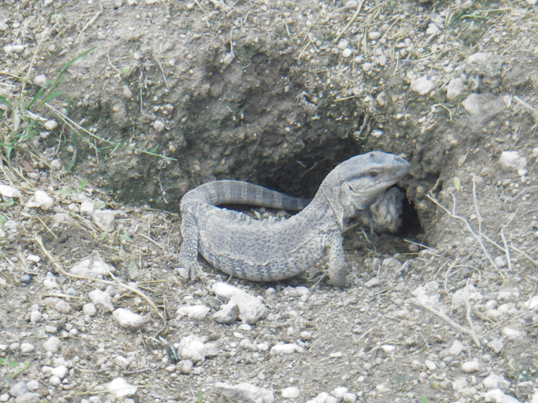 Varanus exanthematicus, Steppenwaran, Namibia. In my opinion this is more likely a Varanus albigularis, as V. exanthematicus doesn't occur in Namibia and this animal shows the characteristic temporal stripe of V. albigularis. --Martin-rnr (talk) 13:45, 7 March 2011 (UTC)